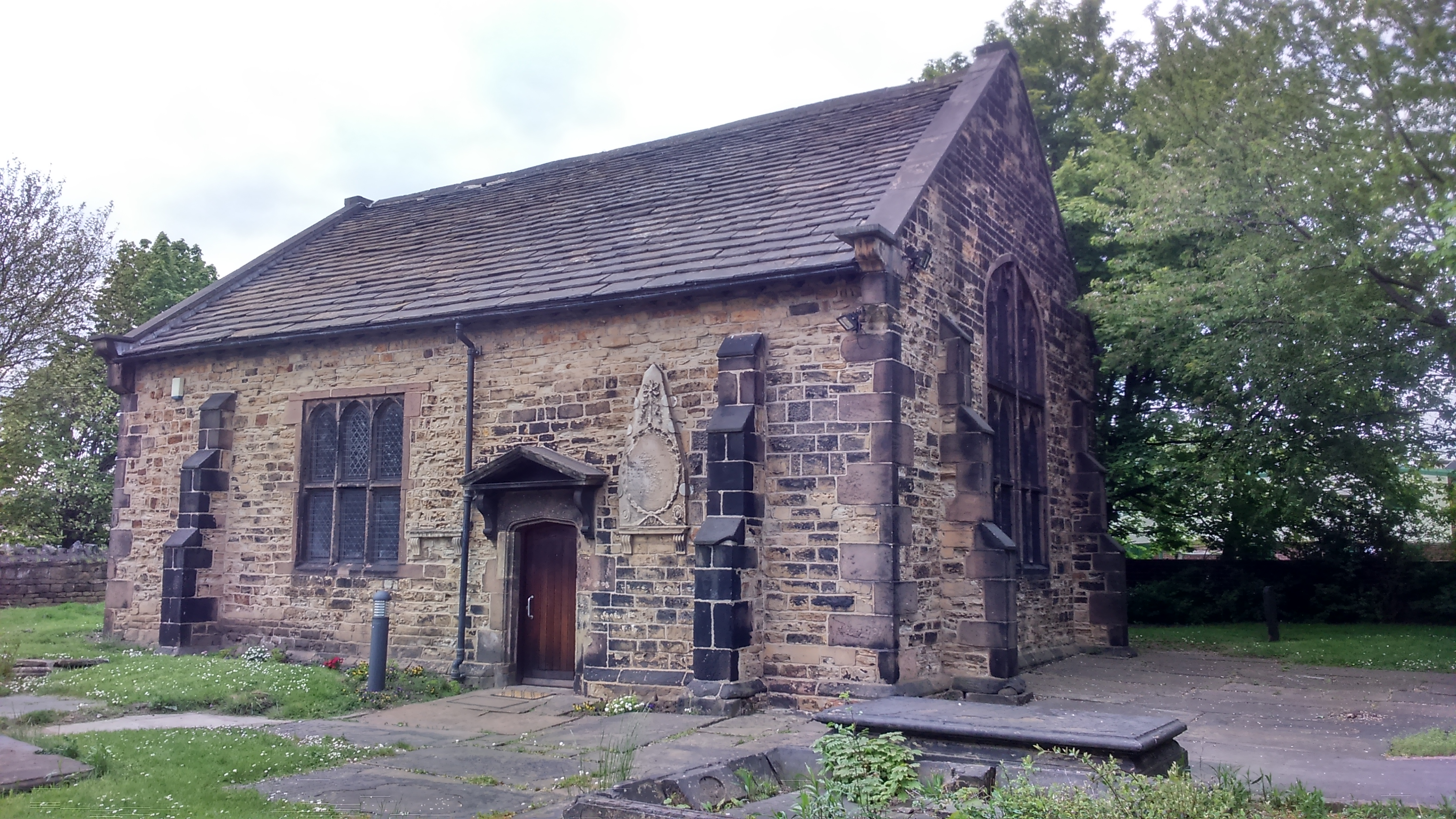 Hill Top Chapel, Attercliffe, Sheffield, South Yorkshire, seen from the southeast